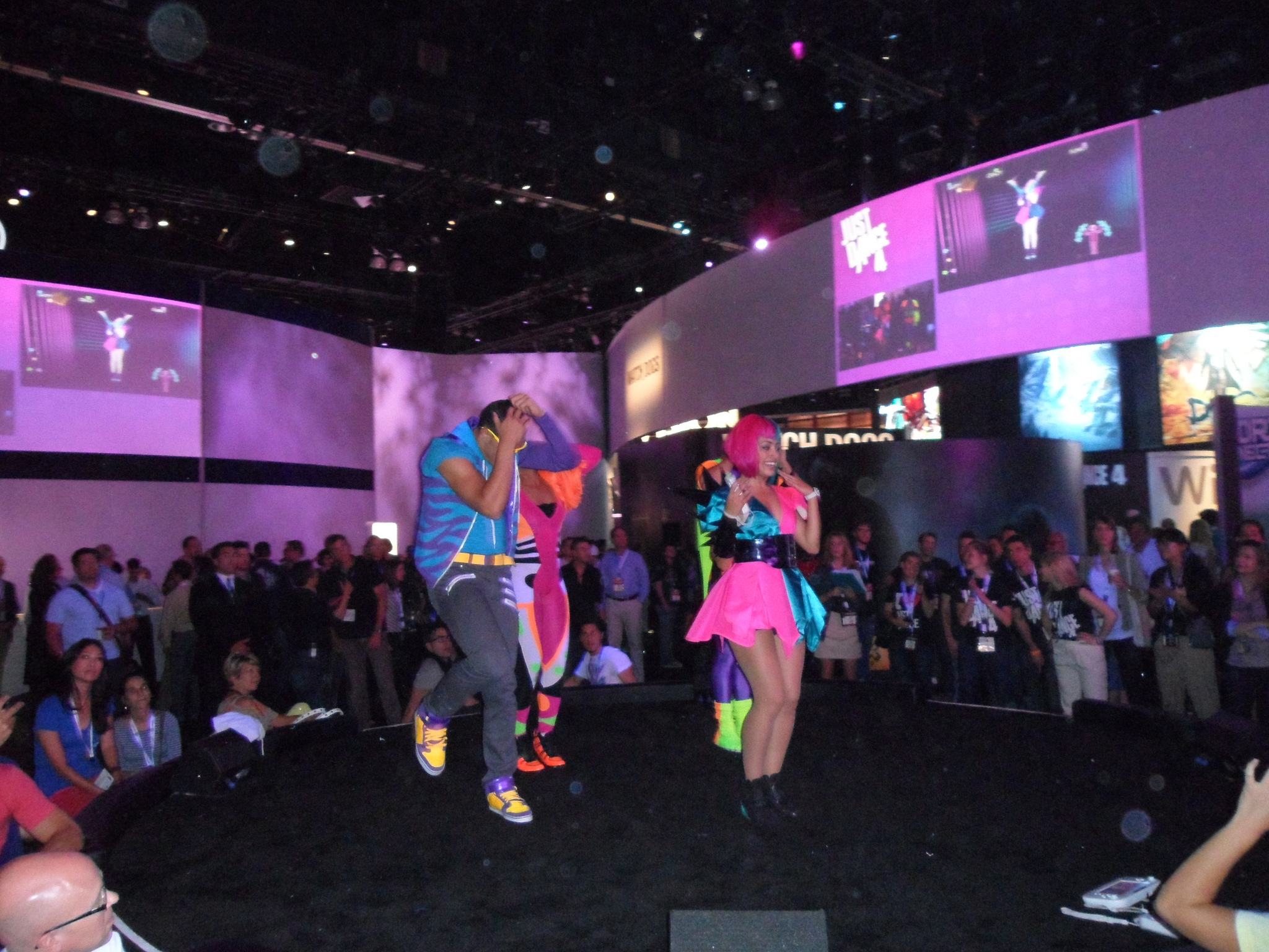 E3 2012